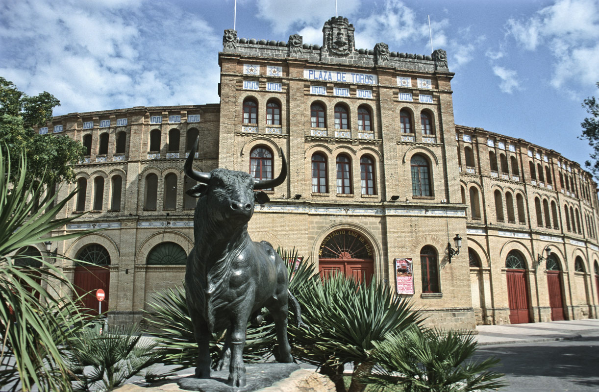 El Puerto de Santa María, Corrida